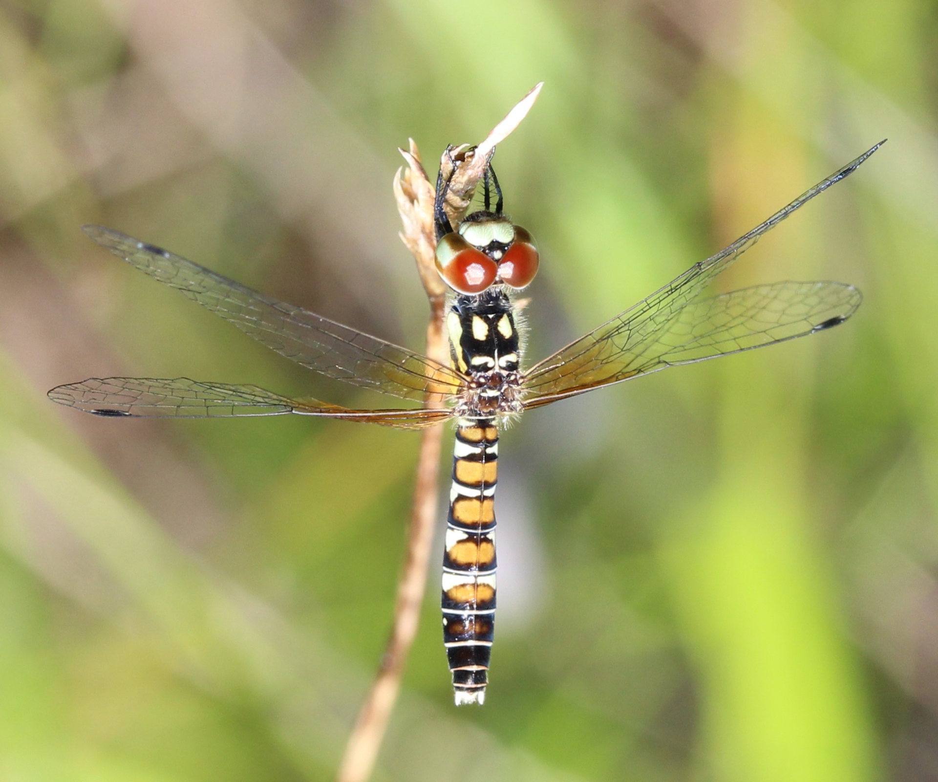 Nannophya pygmaea (Scarlet Dwarf), female in Japan.